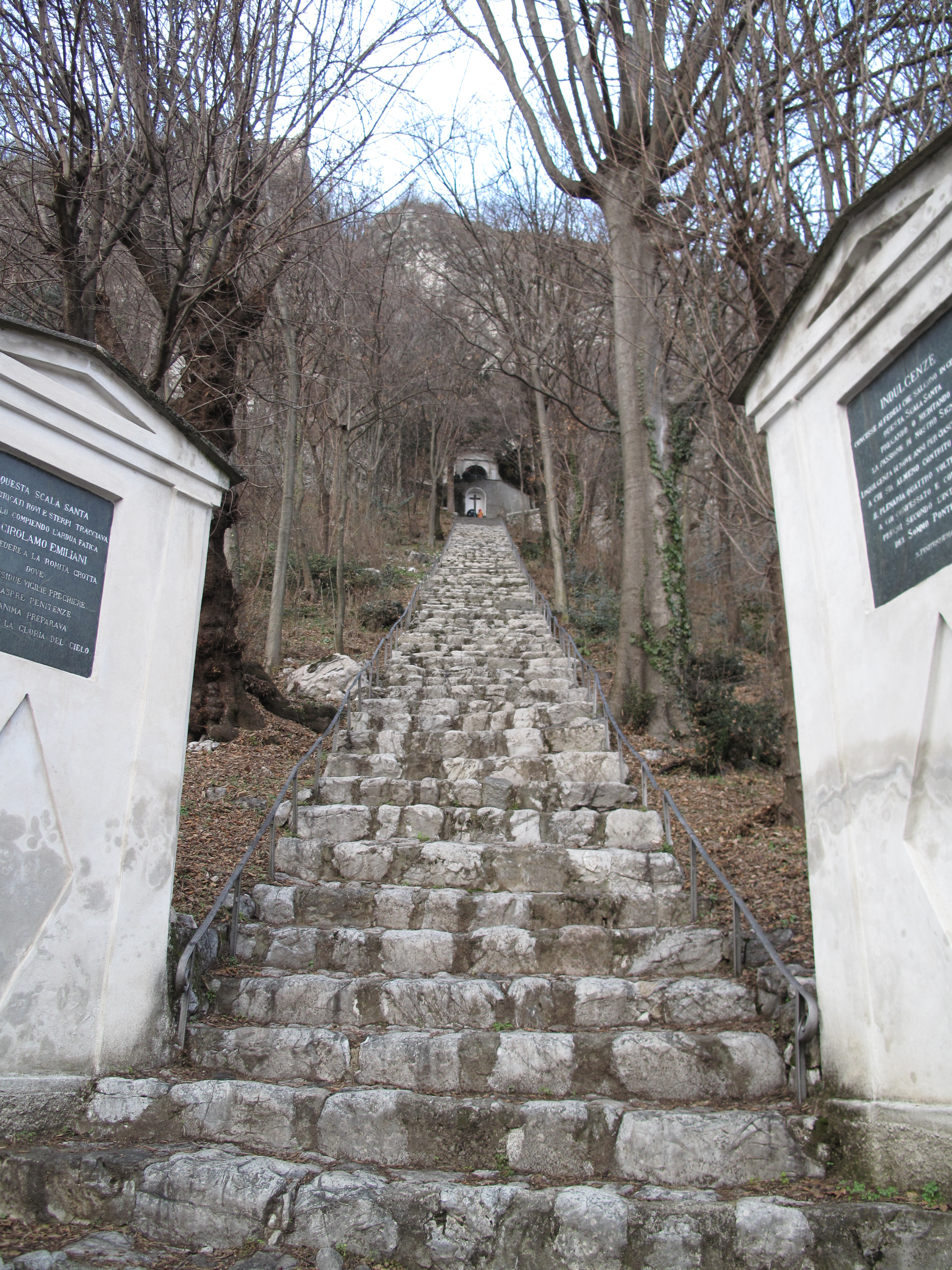 Saint Ladder, Chapel of Saint Girolamo Emiliani in Somasca di Vercurago (LC) Italy